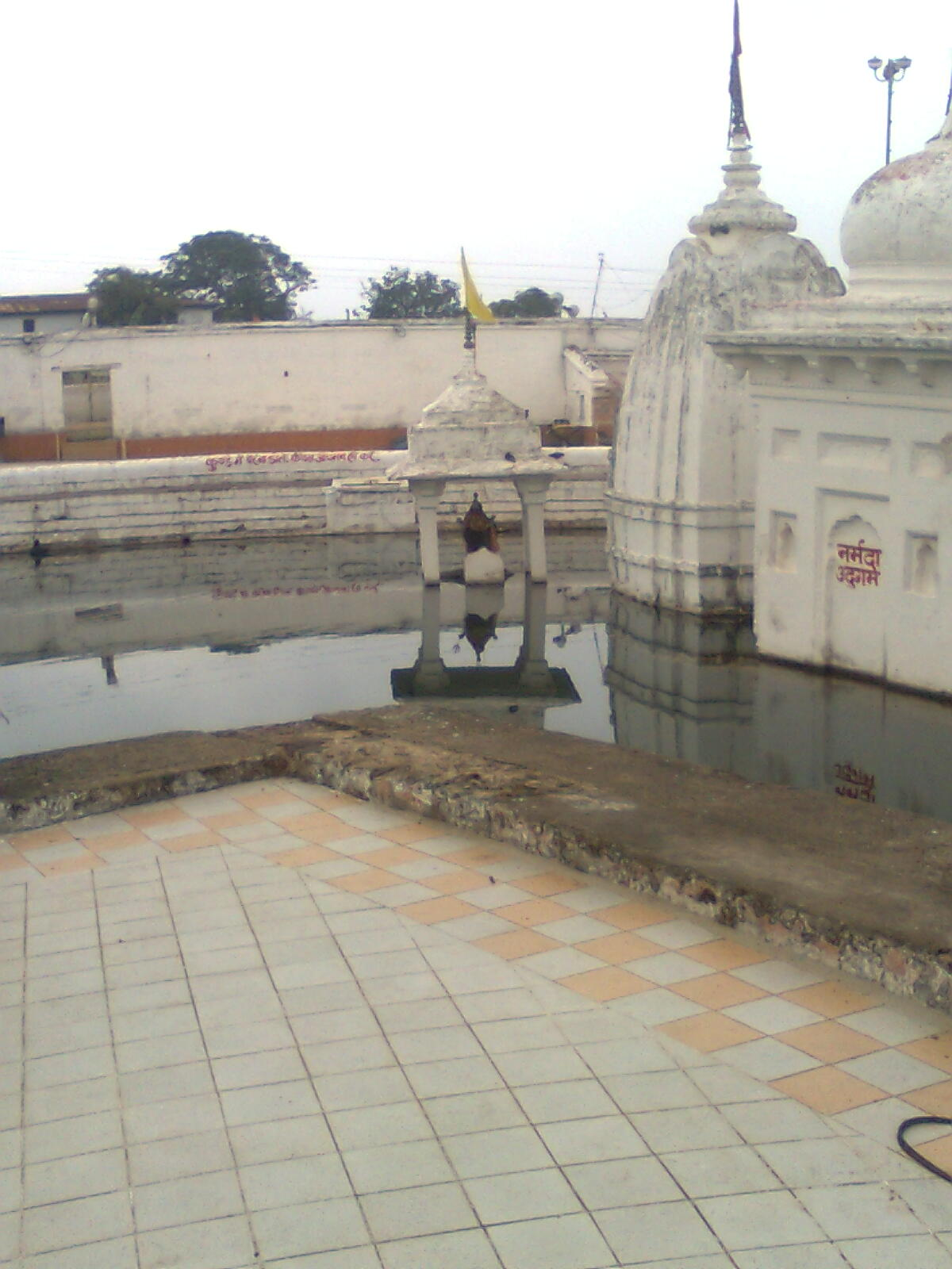 this temple is at indian satate of madhya pradesh in amarkantak this temple is of indian godess narmada and the water is shown is the origin of indian river NARMADA